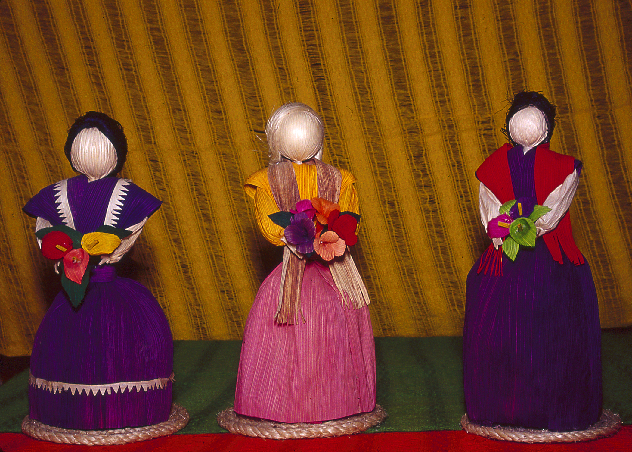 Corn husk dolls from Oaxaca